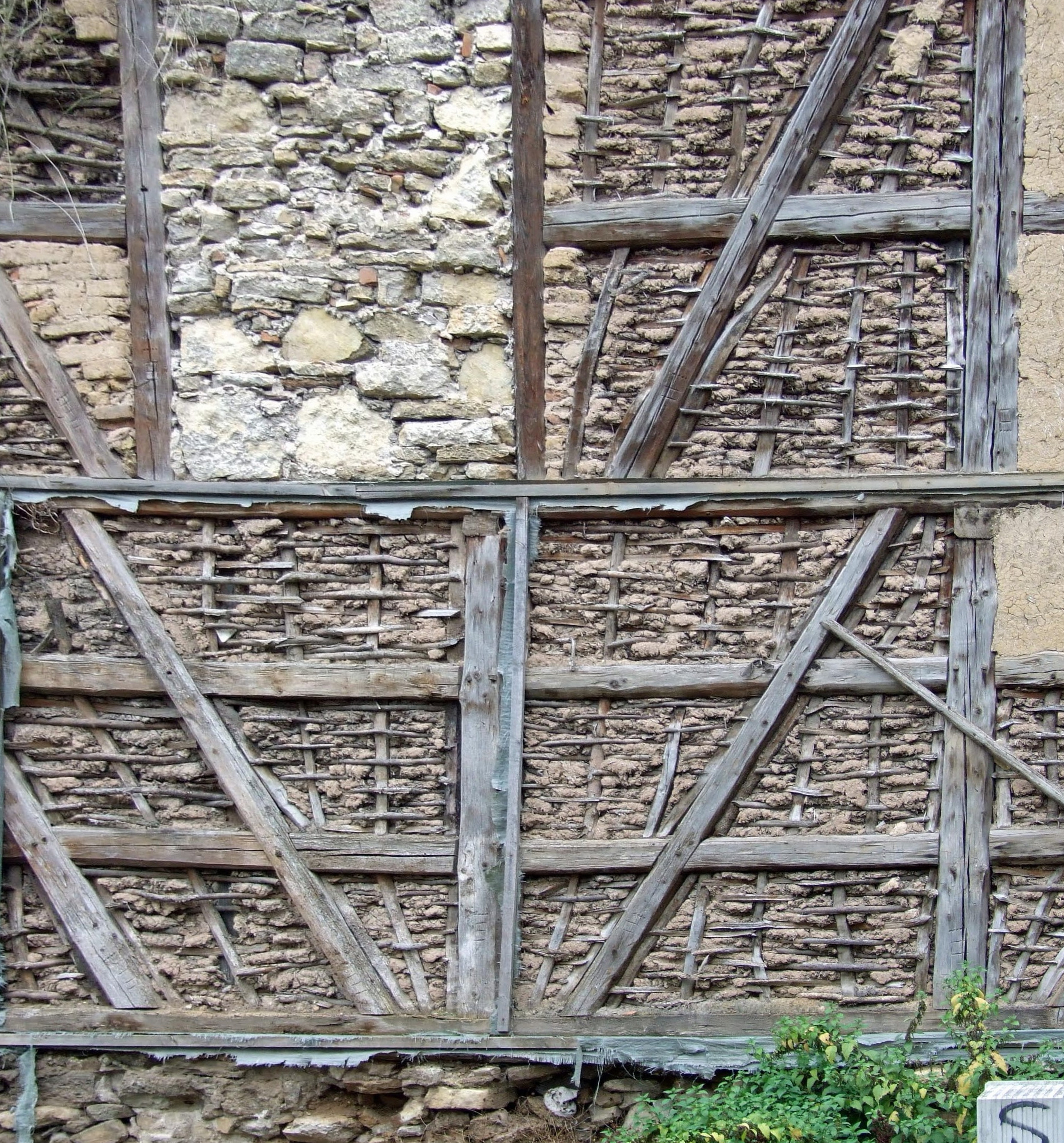 uncovered old half timbering wall at Meiningen, Thuringia, Germany